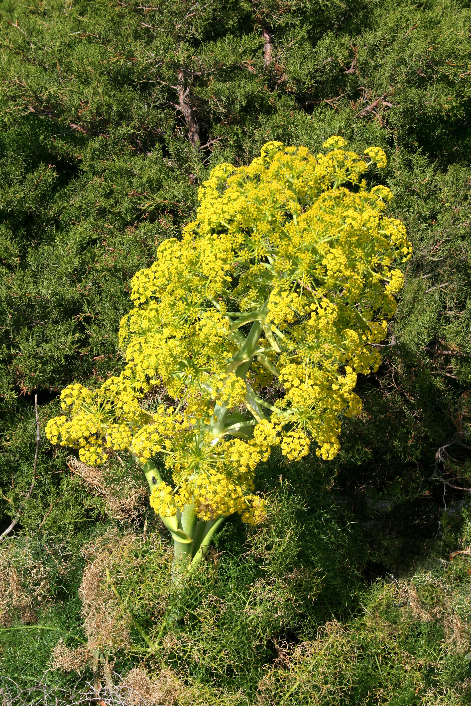 Ferula communis - Habitat: Bonifacio (Corse-du-Sud) France.